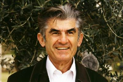 Photograph